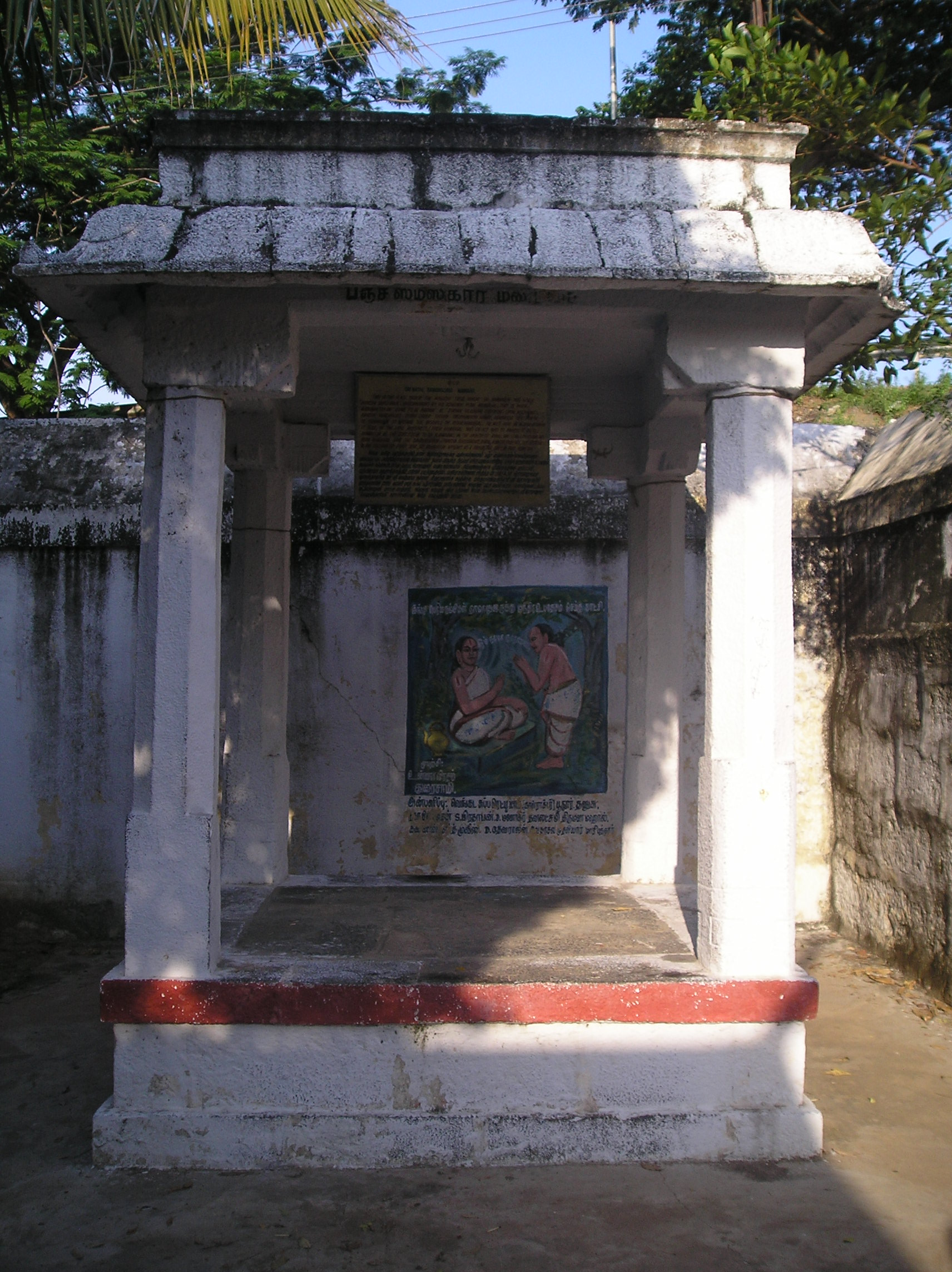 Place of Ramanuja's initiation in the Eri-Katha Ramar Temple of Maduranthakam, Tamil Nadu, India